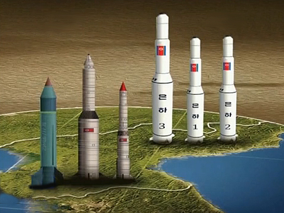 Missile of North Korea